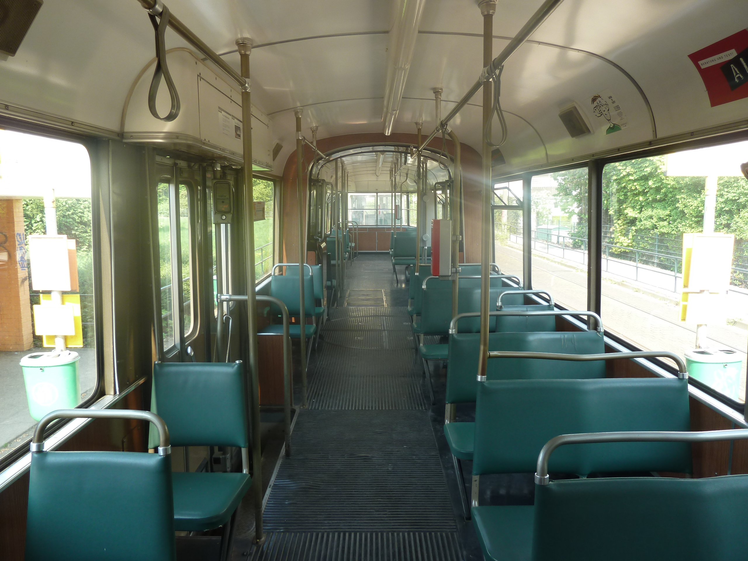 Articulated tram and trailer from Düwag RBG 2672 + 1672 at Düsseldorf Unterrath. Interior of the articulated tram RBG 2672.